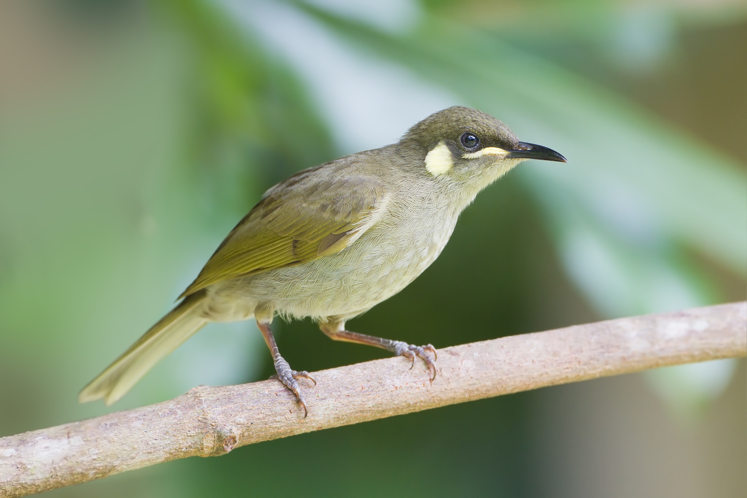 Yellow-spotted Honeyeater (Meliphaga notata), Daintree Village, Queensland, Australia